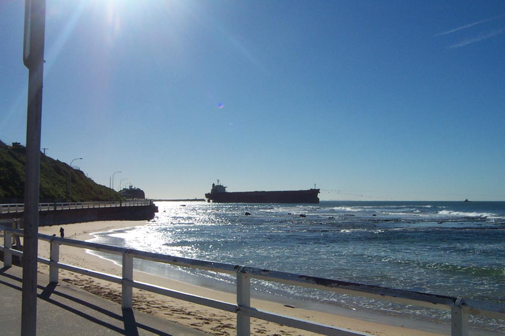 The MV Pasha Bulker after the second attempt to refloat it. The picture was taken near the Newcastle Ocean Baths (as a reference point).